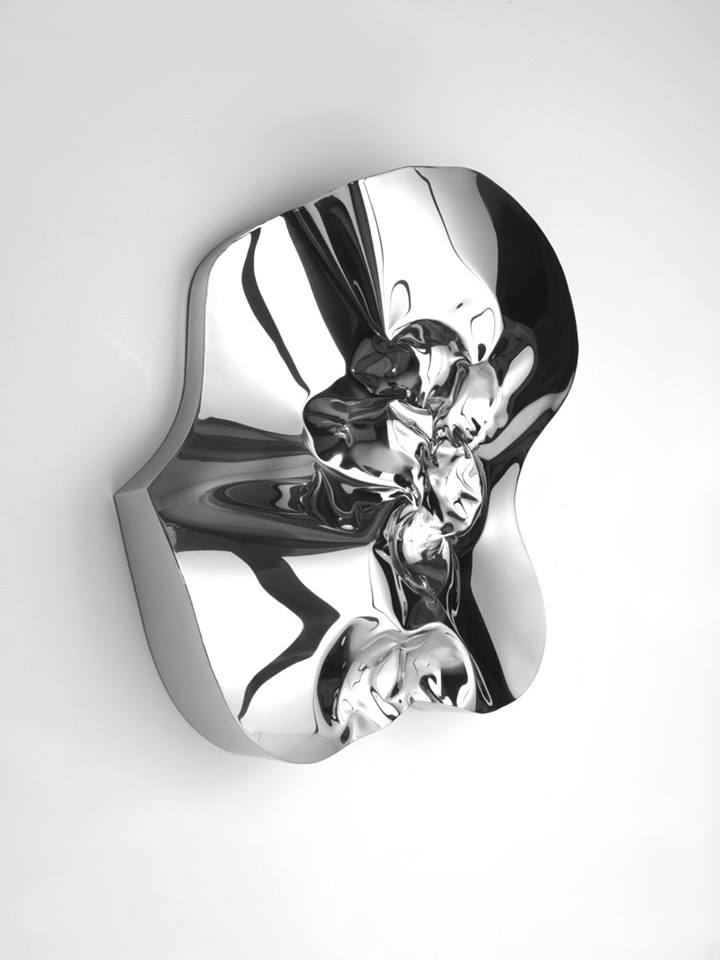 Helidon Xhixha, Light, steel, 140x120x15cm, 2010